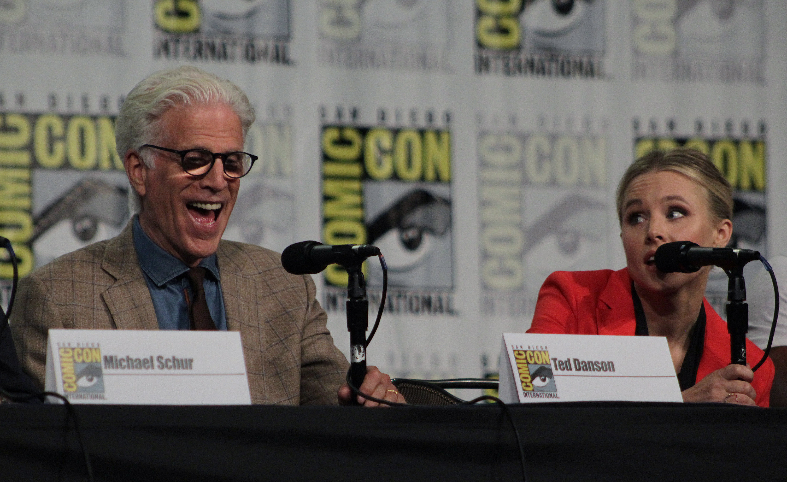 Cast and crew of NBC's 'The Good Place' discuss the show in the Indigo Ballroom at the San Diego Hilton Bayfront Hotel during San Diego Comic Con on July 21, 2018. Taken by Dominique Redfearn.